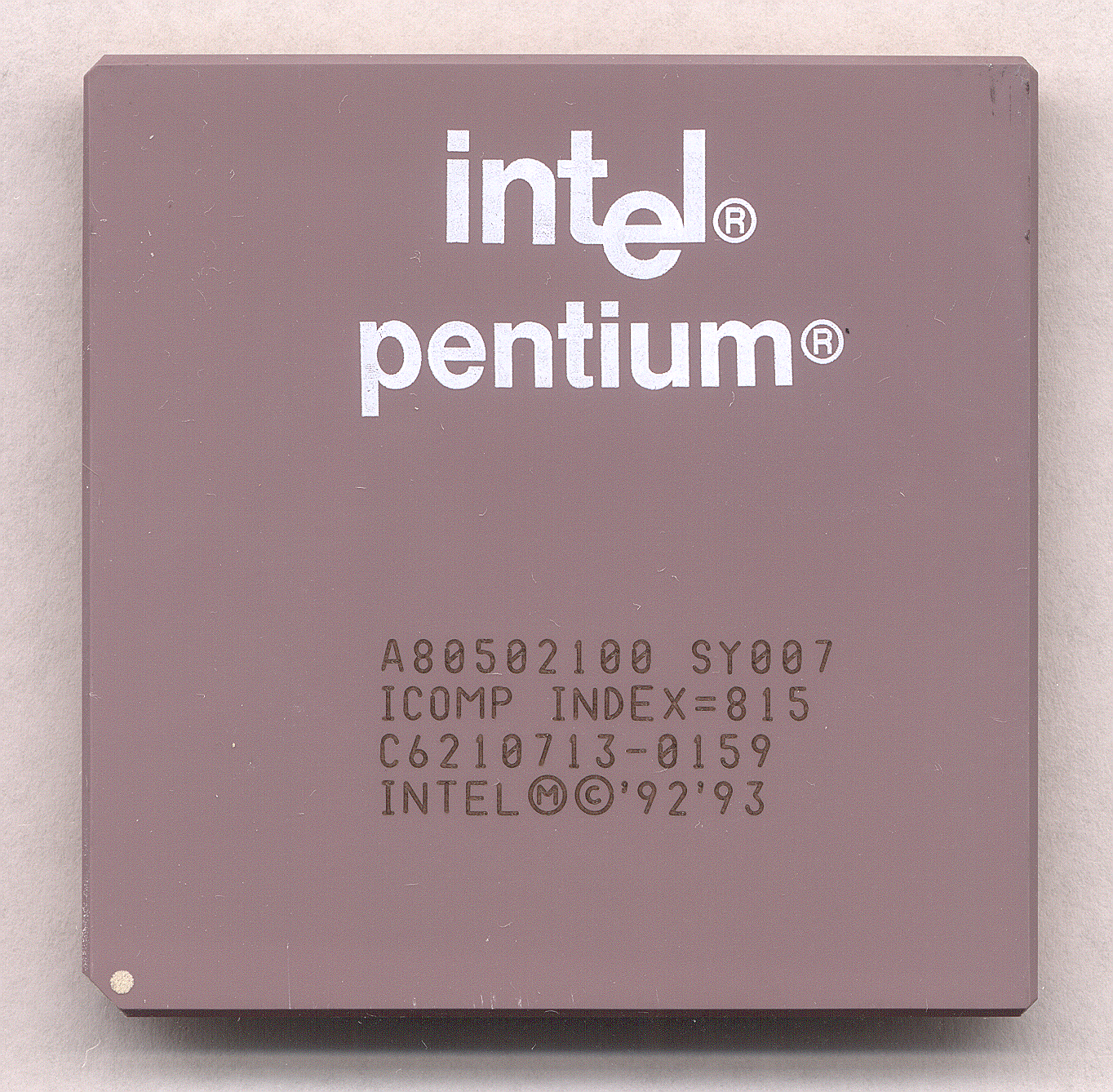 Intel Pentium Microprocessor (Observe) A80502100 sSpec: SY007 iCOMP Index (1.0): 815 Date of Manufacture: 21st week of 1996